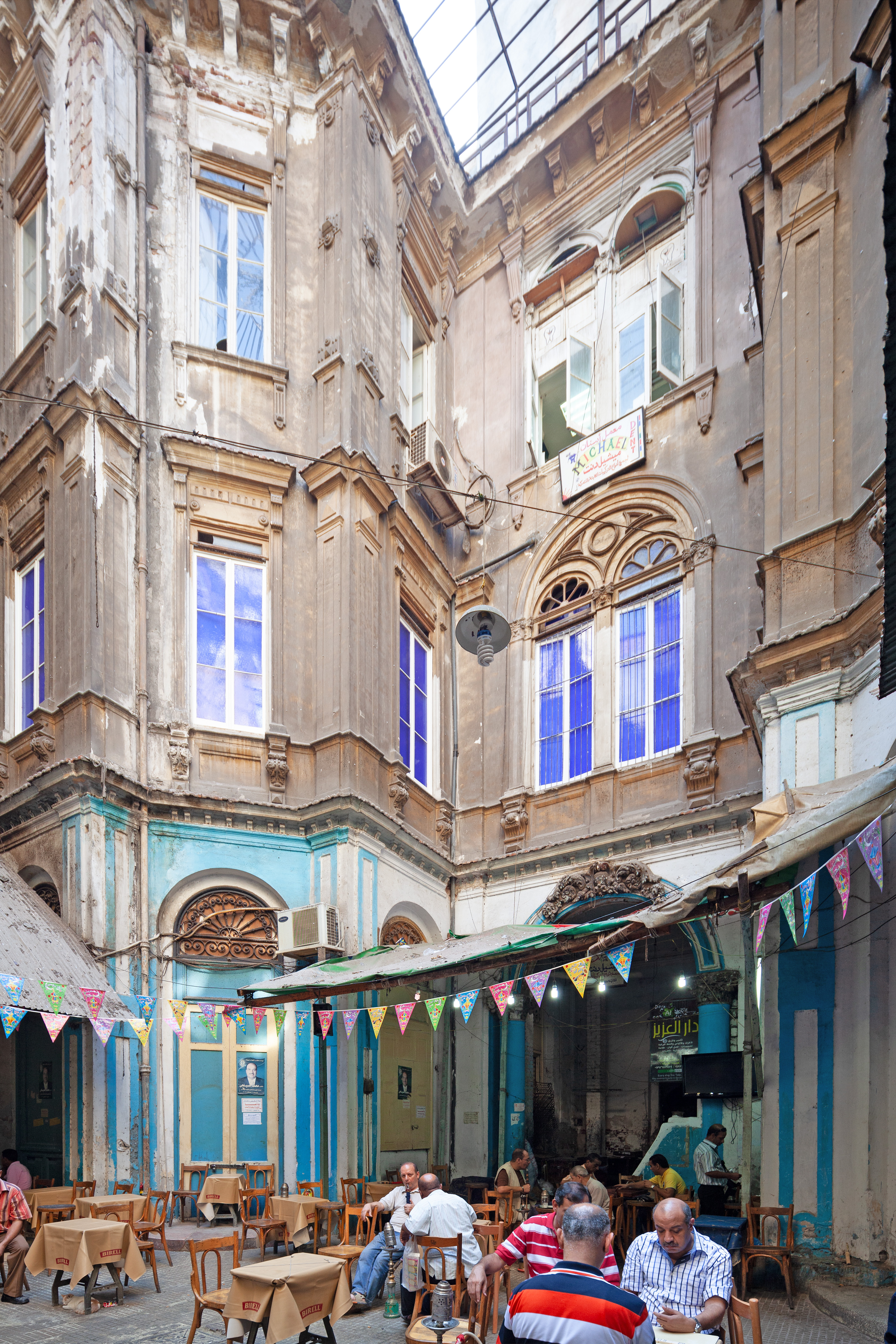 Inside the Okalle Monferrato, 'Orabi square, Alexandria, Egypt